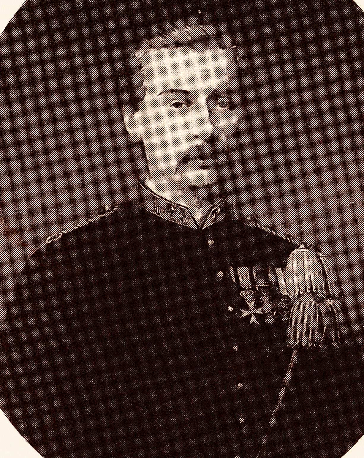 JJWE Verstege